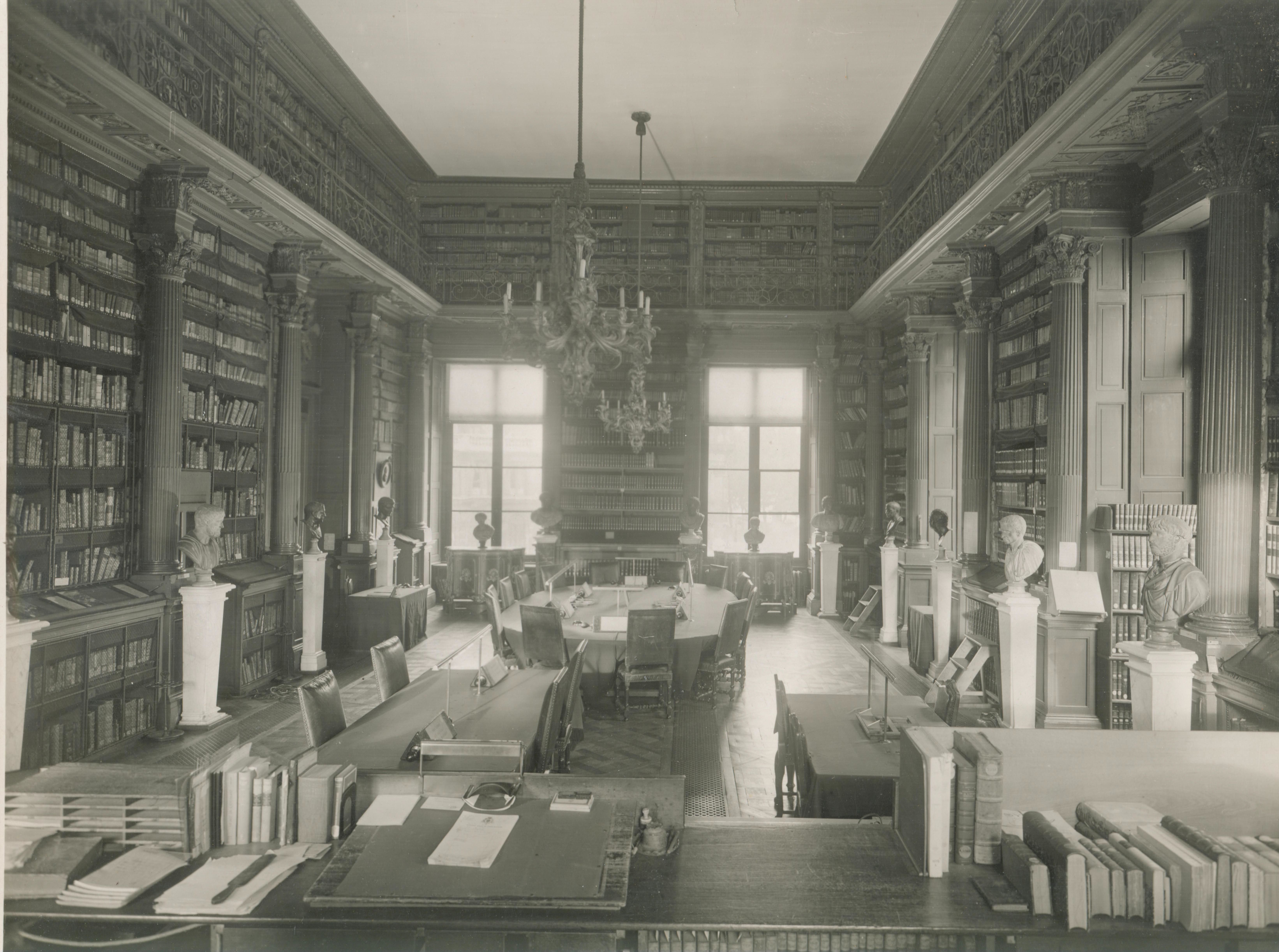 Reading-room of the Bibliothèque Mazarine (Paris)